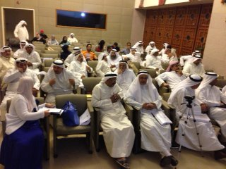 Training session at Kuwait Chamber of Commerce & Industry